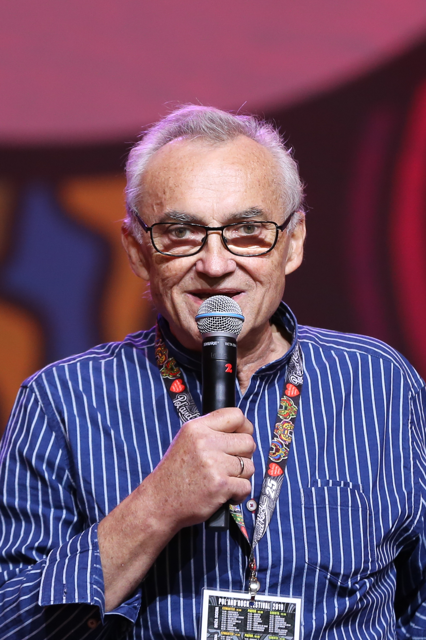 Pol'and'Rock Festival in 2019.